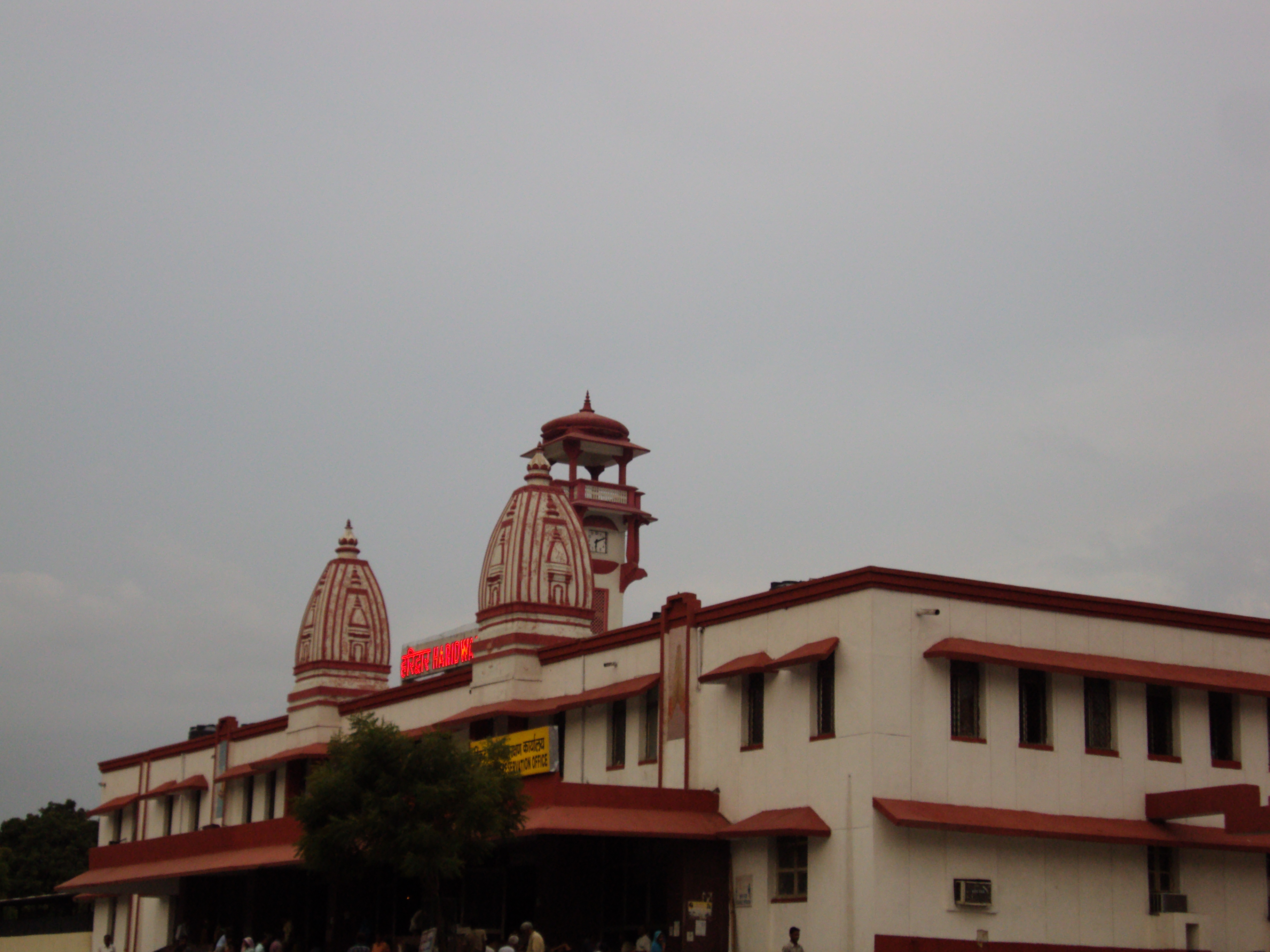 Haridwar Railway station